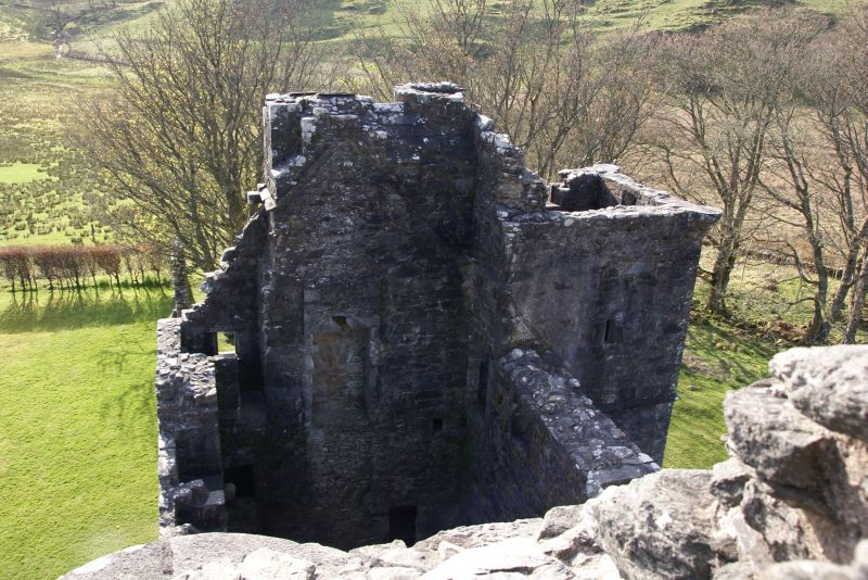 Carnasserie castle, Scotland